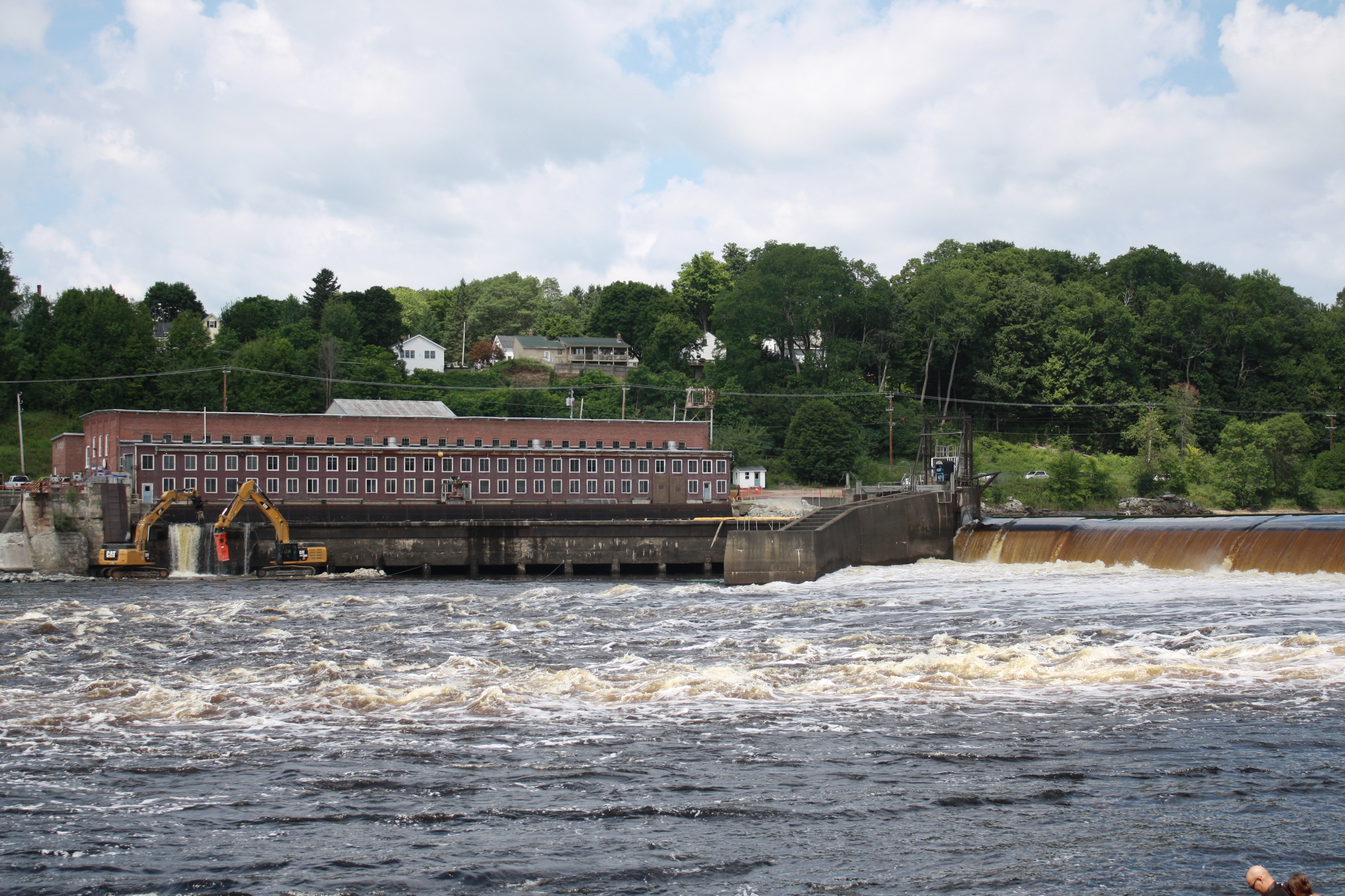 The Veazie Dam, the lowermost dam on the Penobscot River, has blocked Atlantic salmon, American shad, shortnose sturgeon, and eight other sea-run fish from reaching their spawning and juvenile growing habitat for nearly two centuries. Veazie will be the second dam removed in this monumental endeavor. Credit: Meagan Racey, USFWS